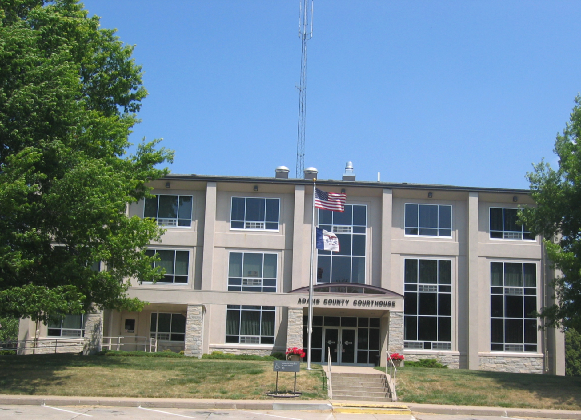 Adams County IA Courthouse